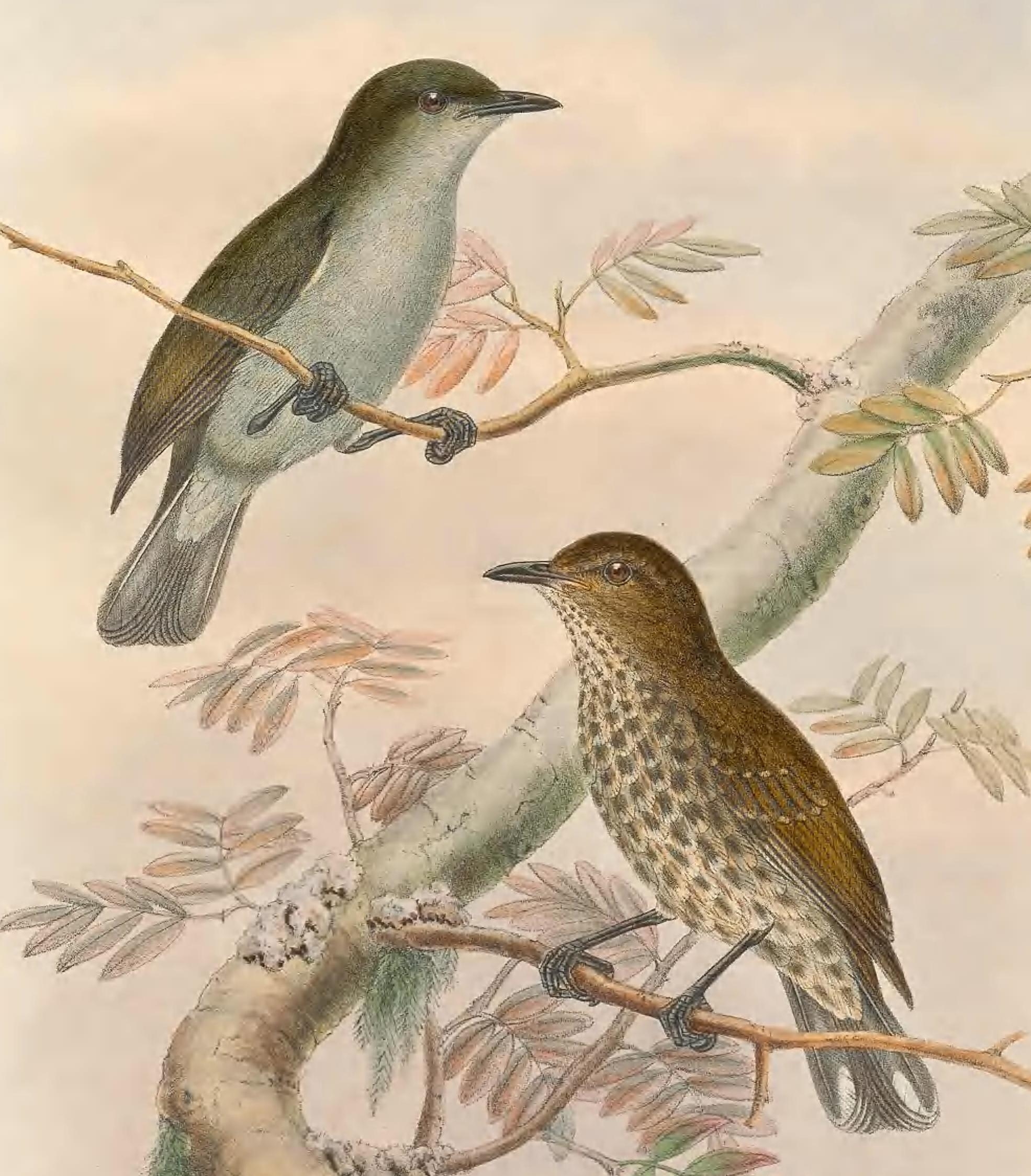 Rhamphocharis crassirostris in The birds of New Guinea and the adjacent Papuan islands, including many new species recently discovered in Australia. v.4. (Plate 9)